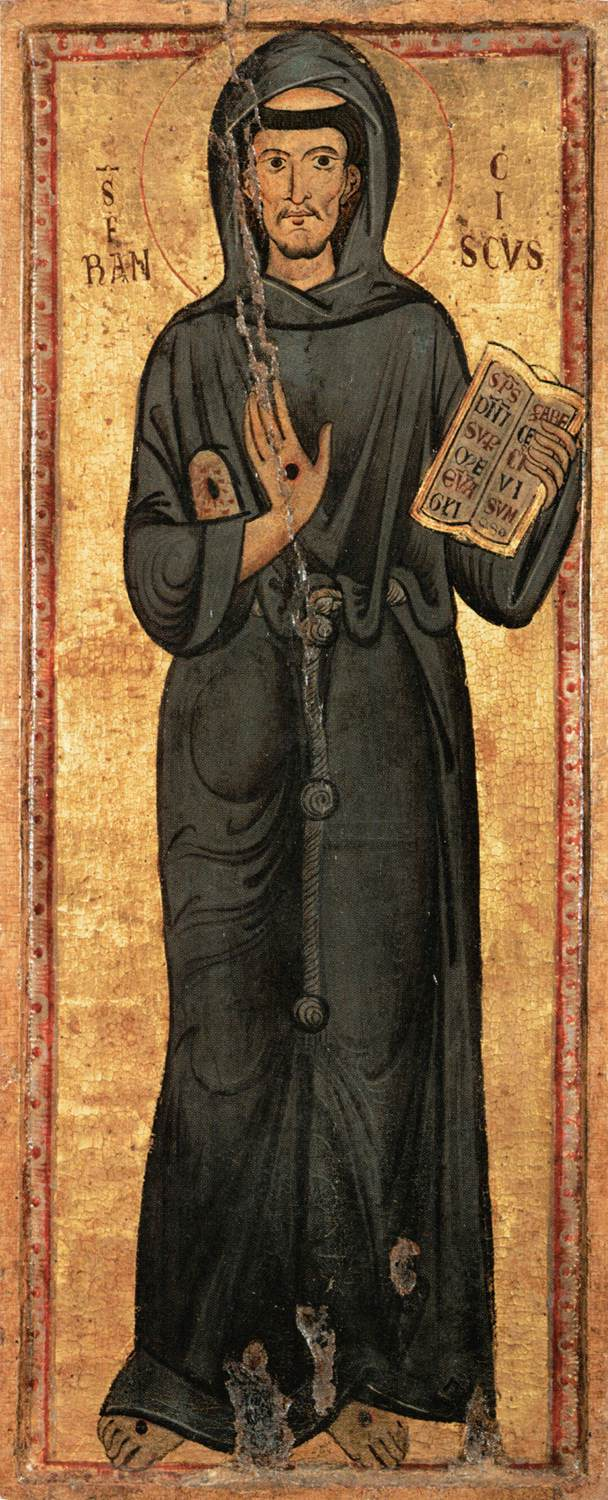 Provenance: Rome, Italy